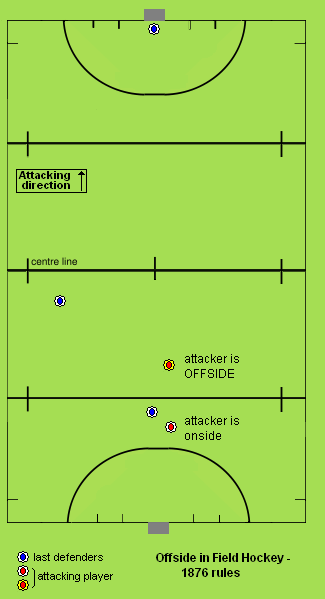 Own - but needs more work -work of shirt58 based on free image :Image:Hockey field.svg by User:Robert Merkel